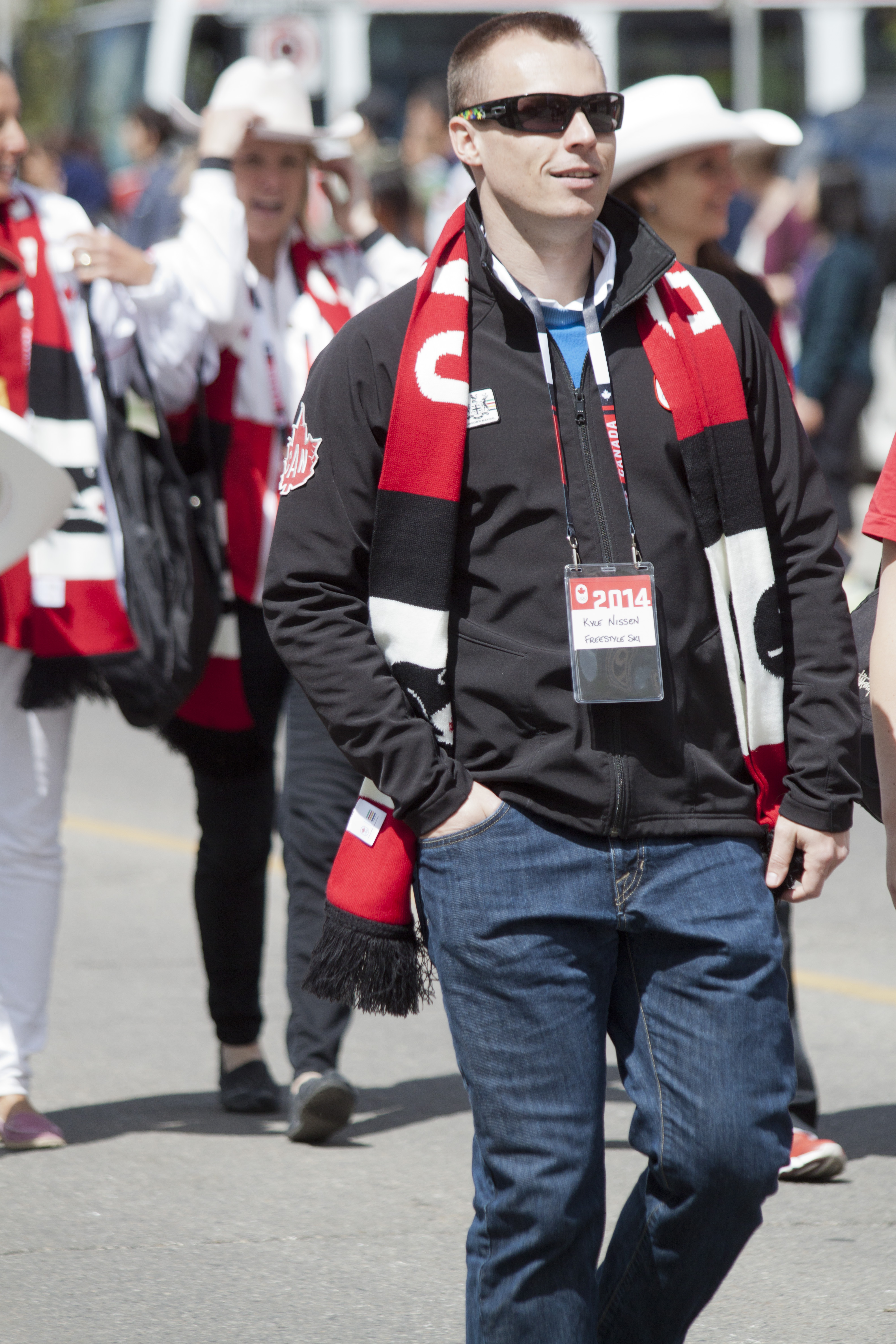 Kyle Nissen at the Parade of Champions in downtown Calgary on June 6, 2014.